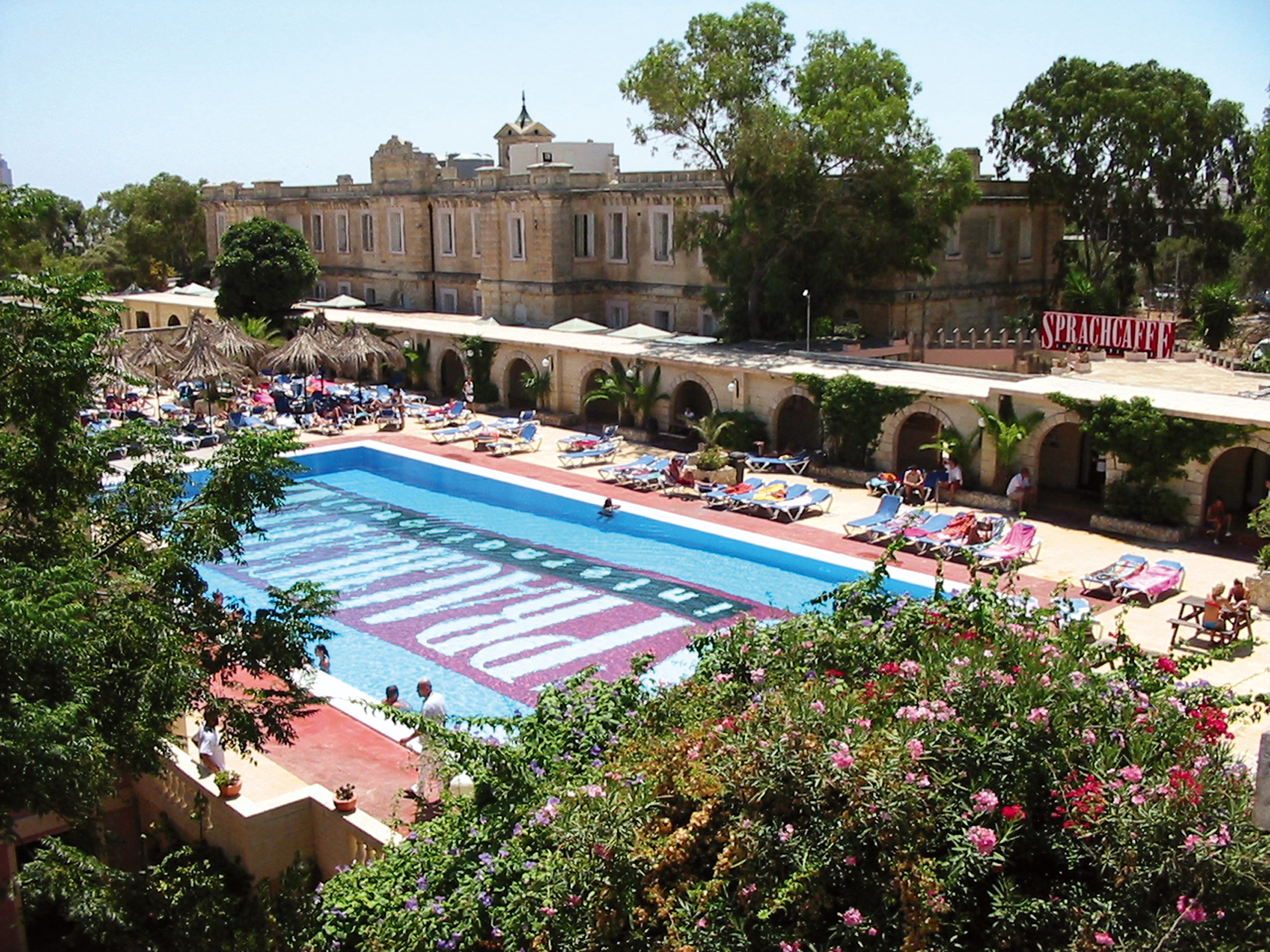 Sprachcaffe Malta Julians Pool